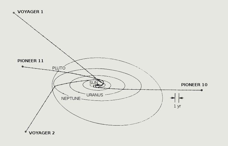 The Voyager and Pioneer spacecraft escape trajectories from the Solar System.